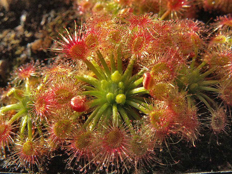 Drosera echinoblastus in cultivation